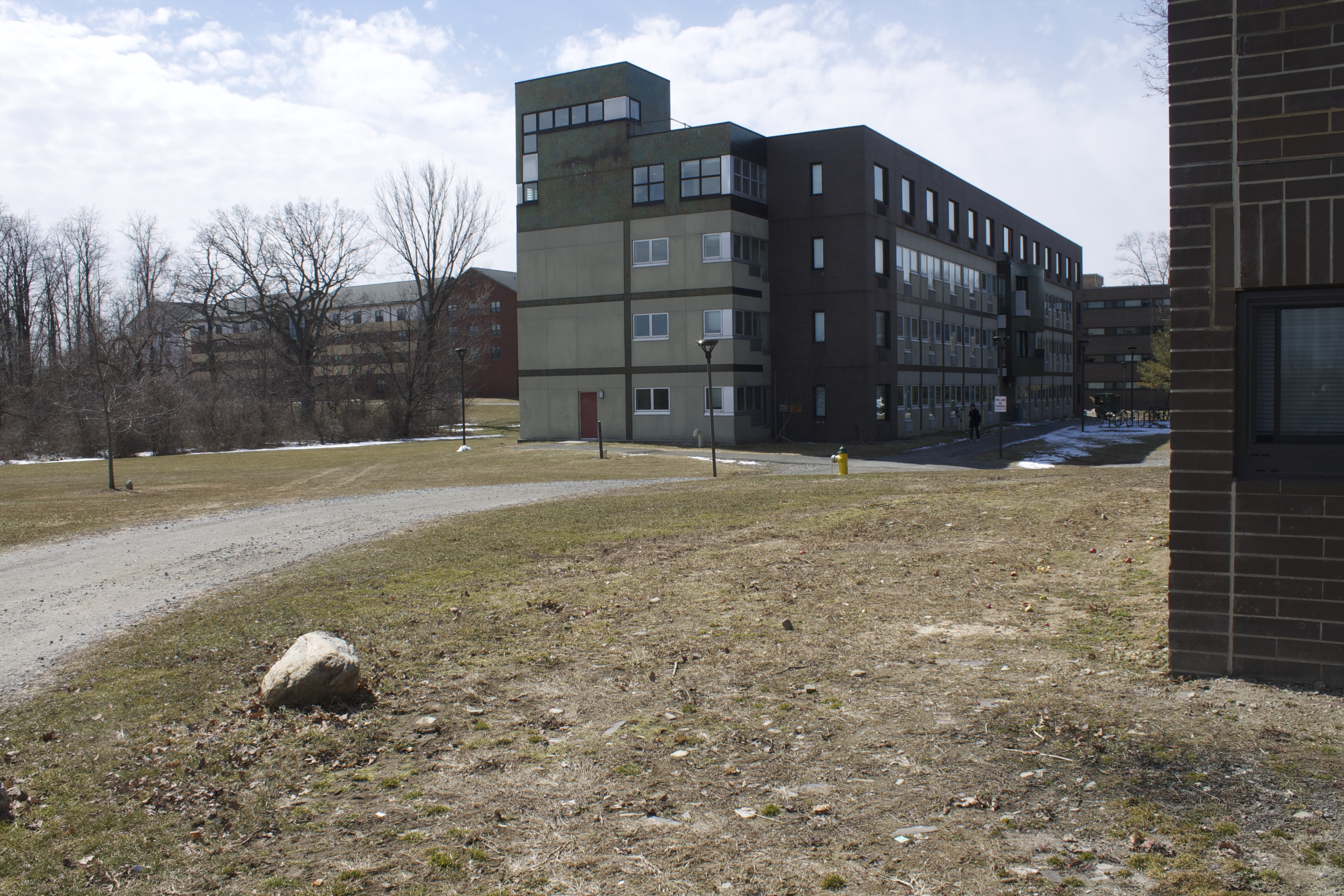 A side view of residence halls Outback and Fort Awesome(far left) from the parking lot of SUNY Purchase.